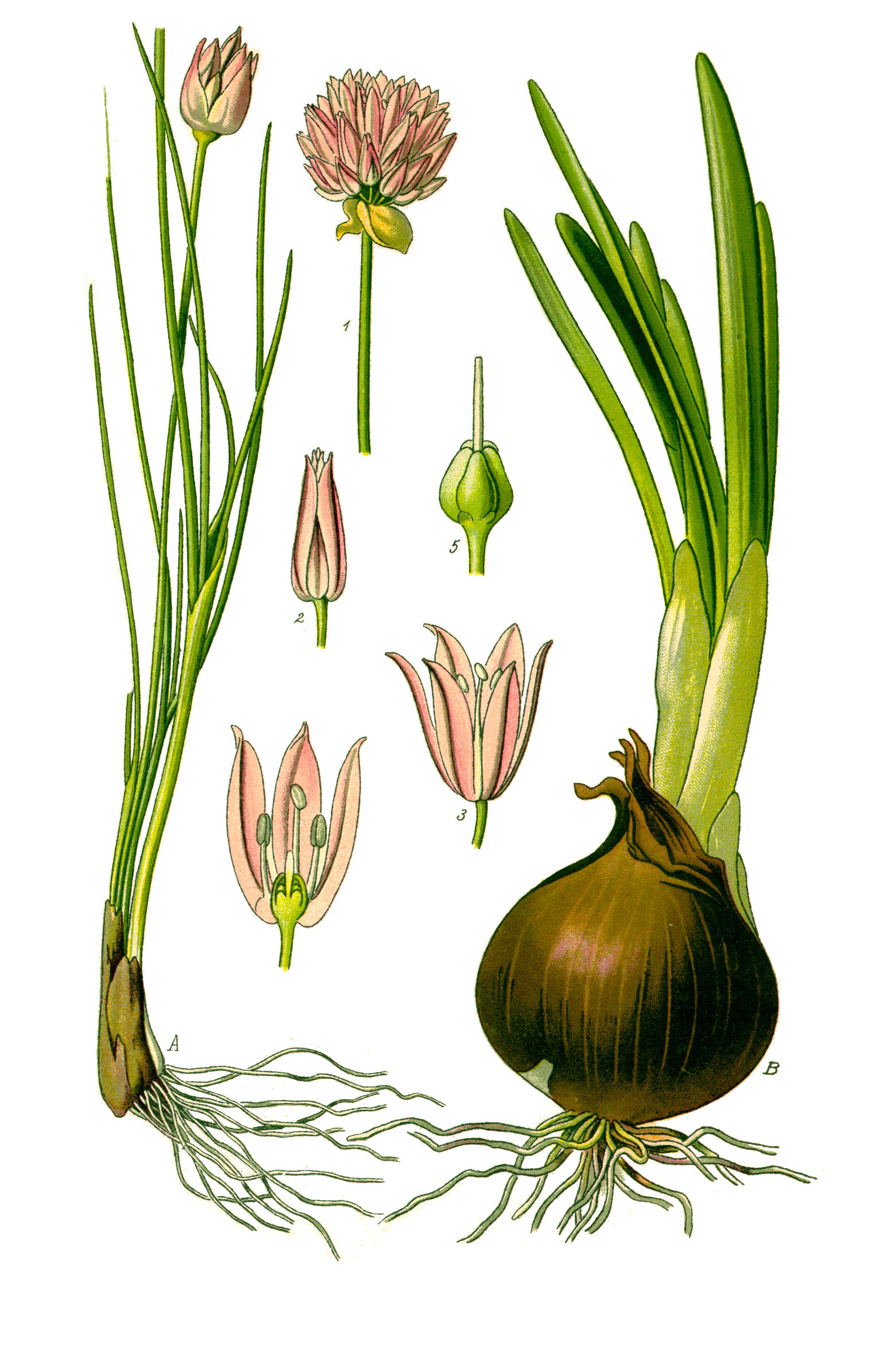 Name Allium schoenoprasum Family Alliaceae Allium schoenoprasum and Allium cepa